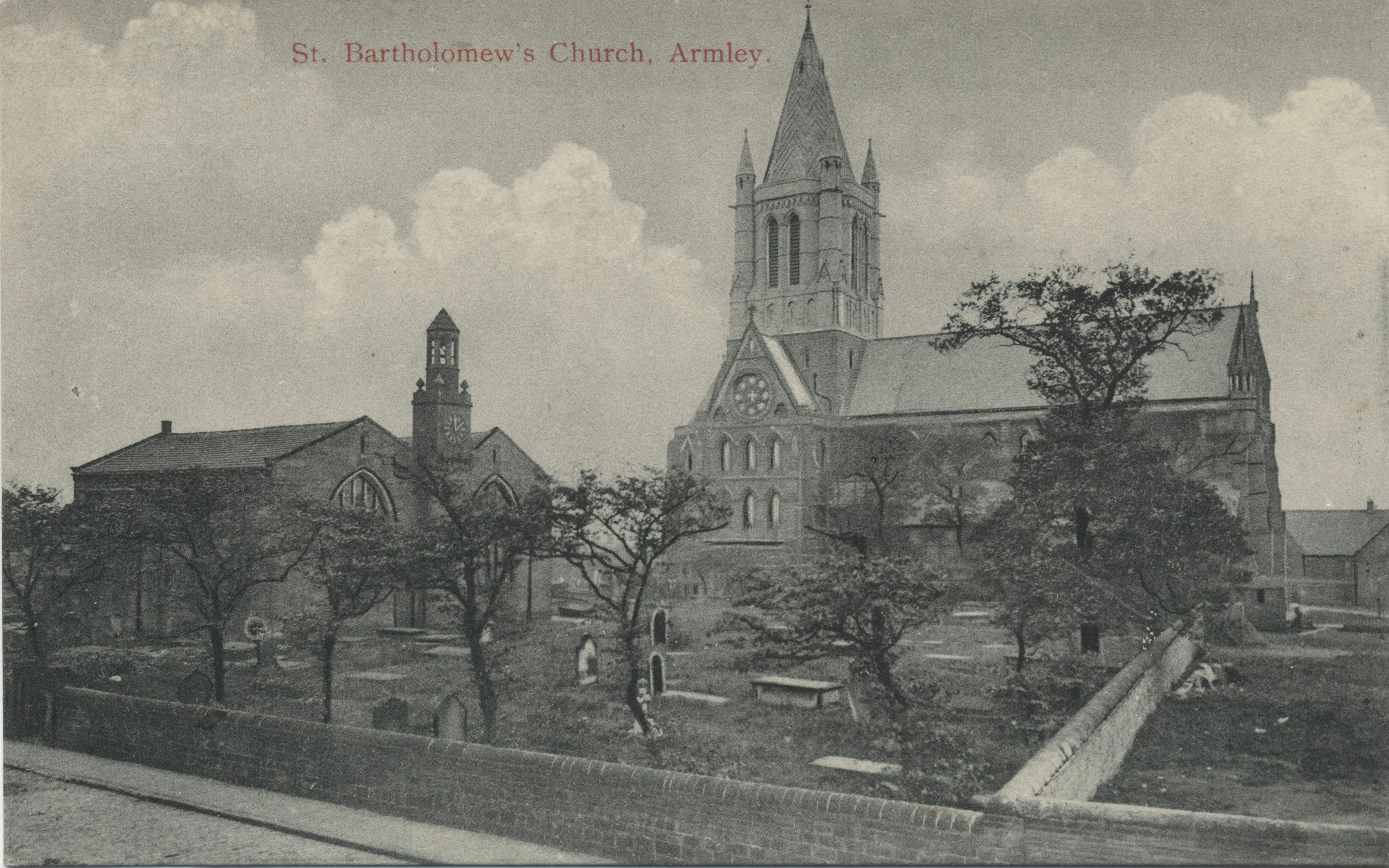 Pre-1914 postcard of St Bartholomew's church, Armley, West Yorkshire, England. Designed by Henry Walker and Joseph Althron, and consecrated in 1877. Dated by style and quality of print, and also the requirement for a half-penny stamp on the back (which is unused). The church on the left is the previously-existing chapel which was demolished in 1909. That old chapel was re-decorated in 1862 and that decoration included stone carving by Mawer & Ingle.